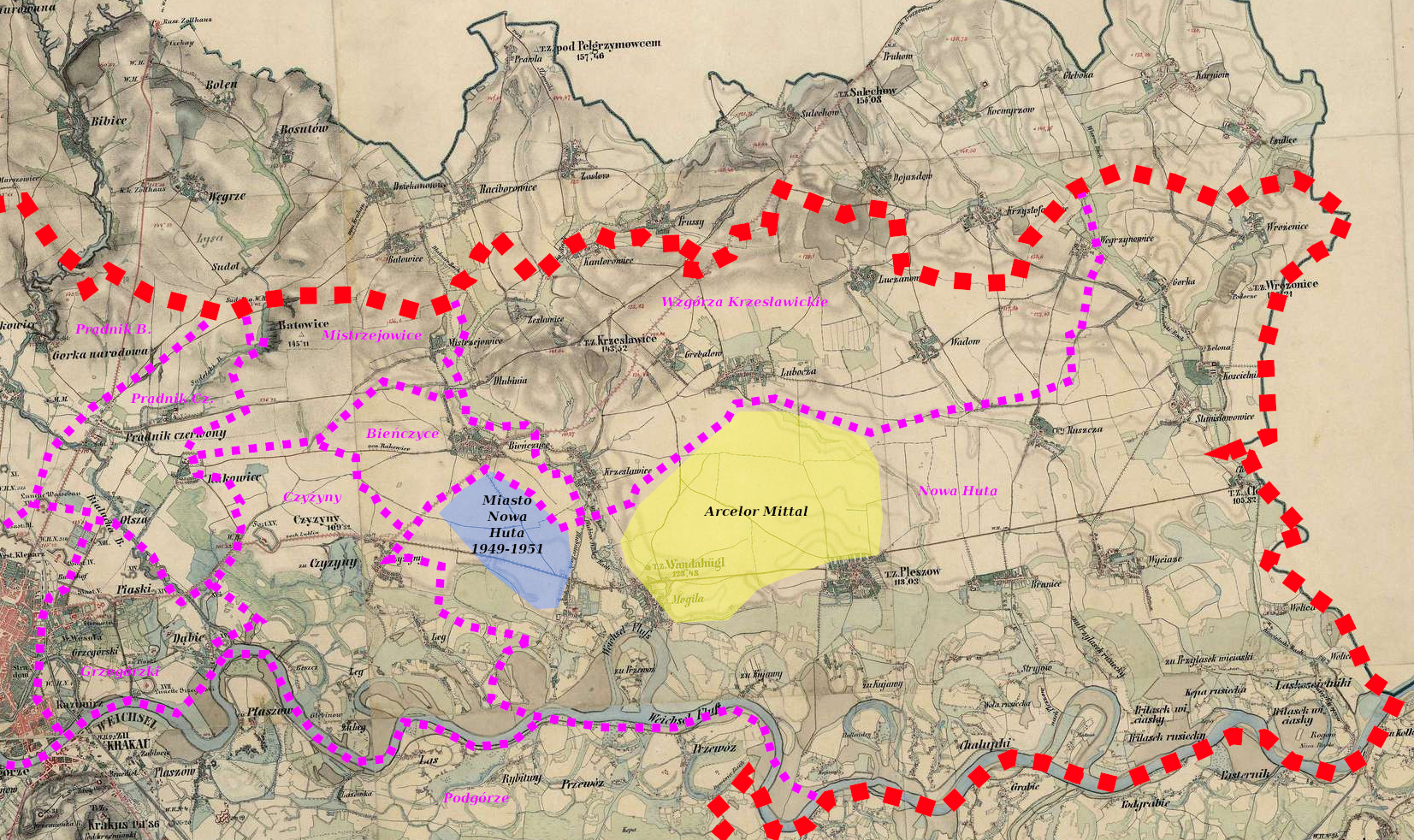 The City of Nowa Huta (blue) and the Steel Mill (yellow) NE of Cracow with modern administrative district (pink dotted) and city (red dotted) borders with Franziszeische Landesaufnahme map from around 1860 (taken from mapire.eu); see also